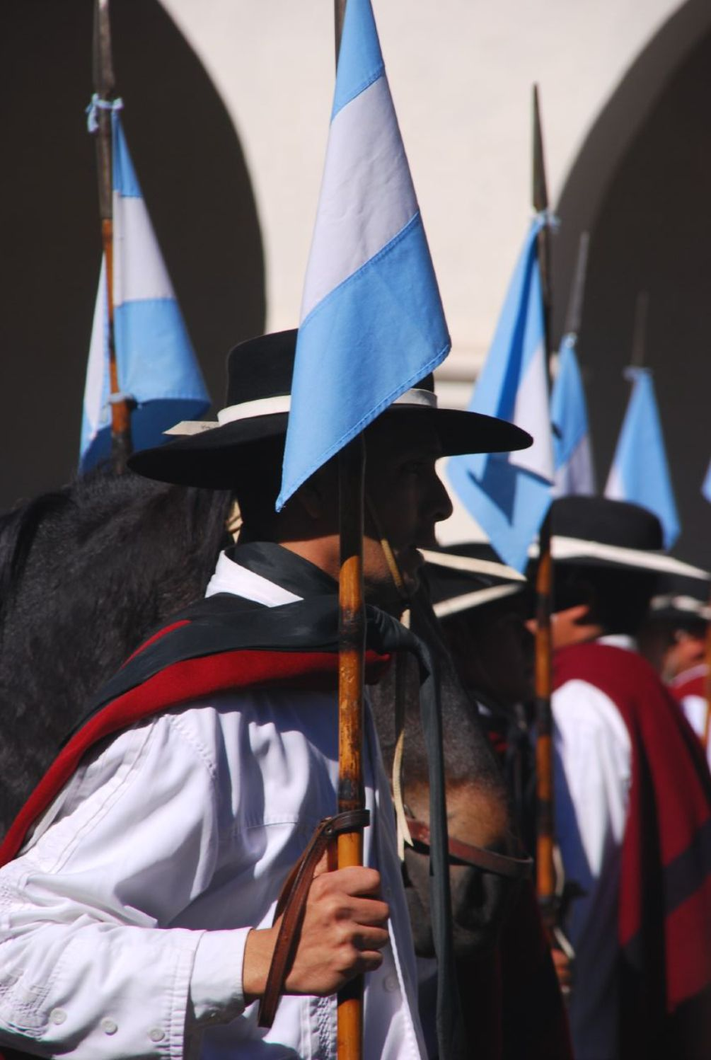 Gauchos in Salta city (Argentina).